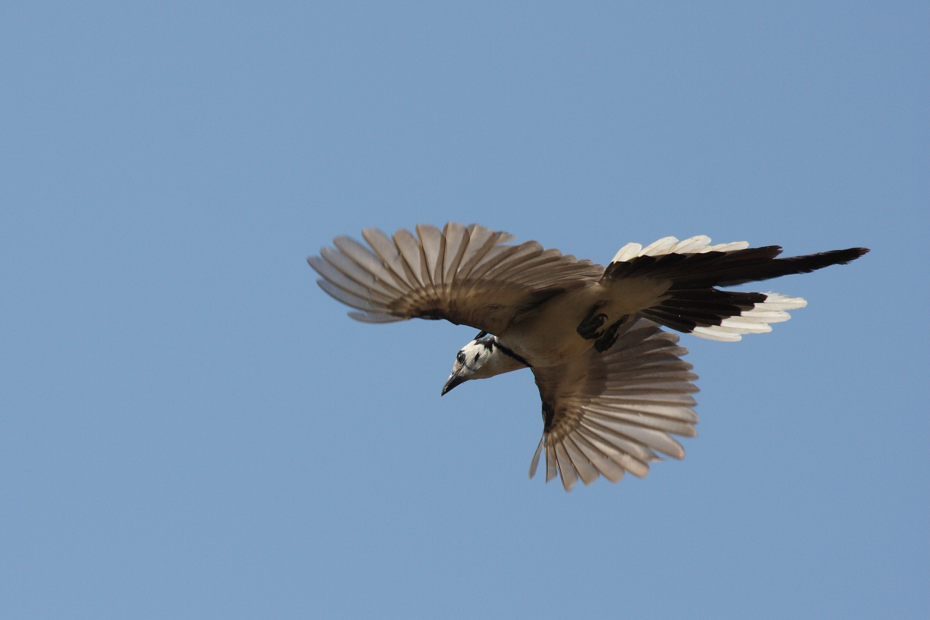 White-throated Magpie-jay (Calocitta formosa) Dysmorodrepanis 22:49, 30 May 2008 (UTC)